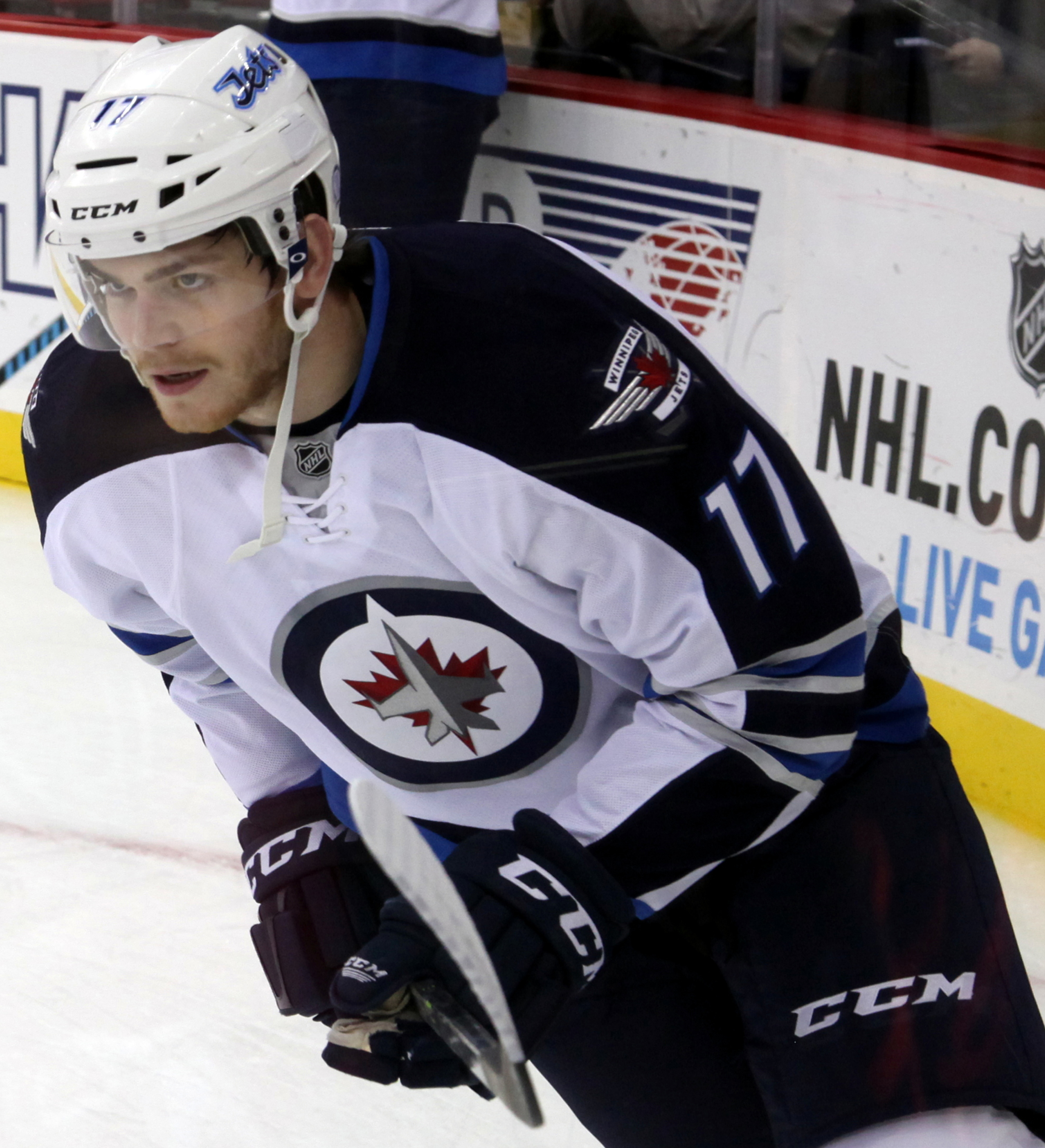 Lowry in October 2014.